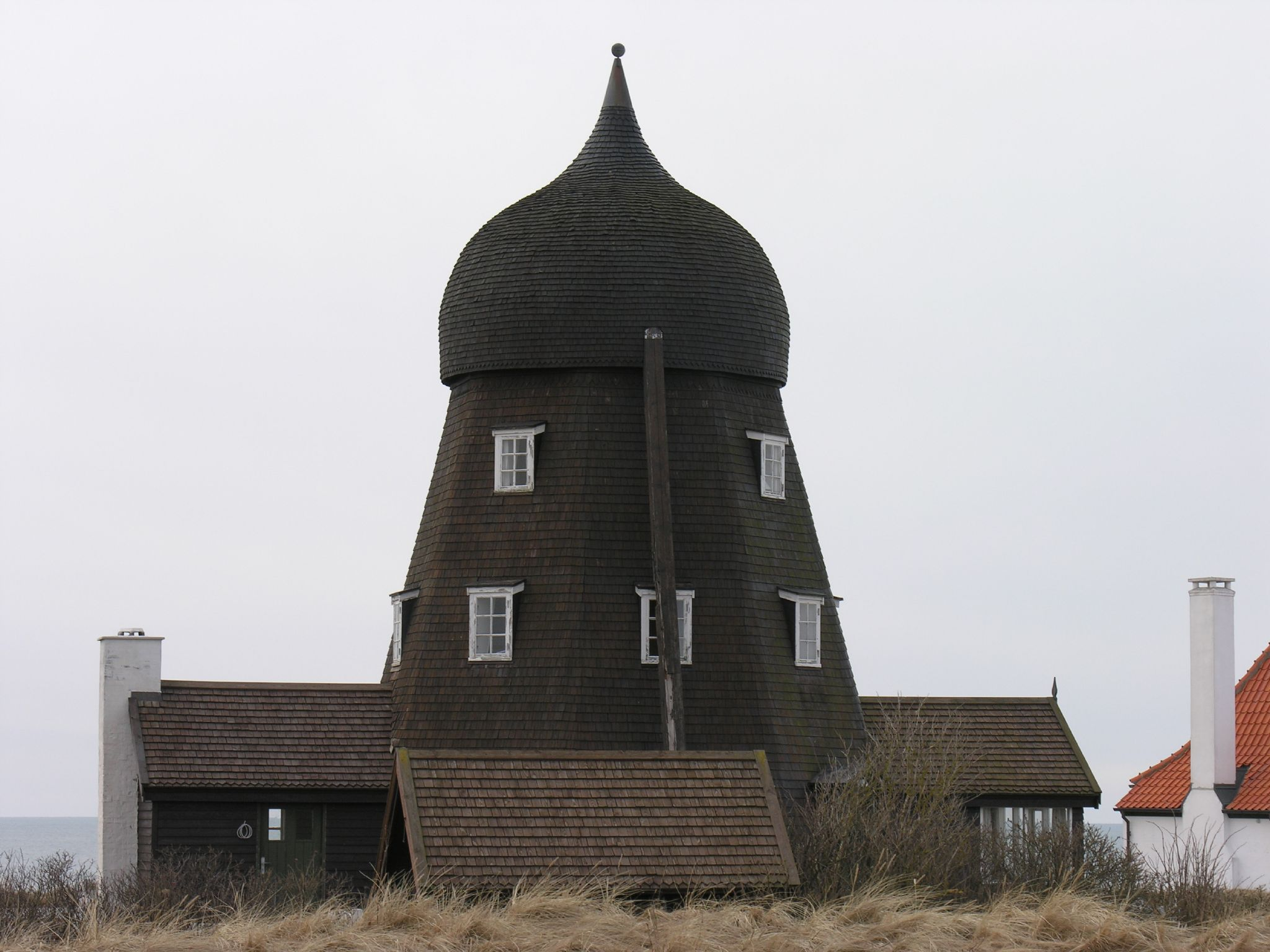 Lønstrup windmill, now a residence, in Lønstrup in the north of Jutland, Denmark